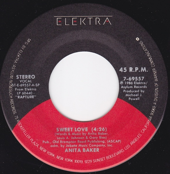 A-Side label of "Sweet Love" by Anita Baker (U.S. vinyl edition)